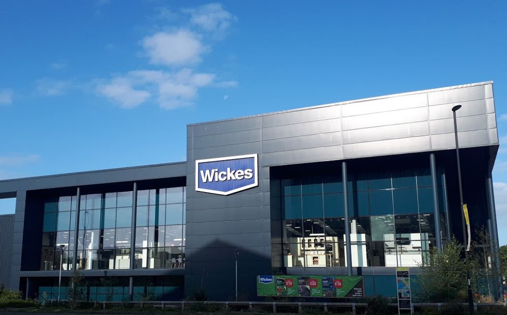 Photo of new style Wickes store. First opened in spring of 2017